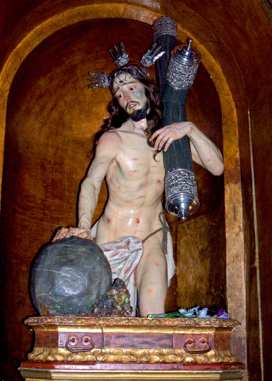 Jesus llevando la Cruz, en la iglesia del Convento de la Magdalena (MM Agustinas) de Baeza (Jaén, Andalucía, España)